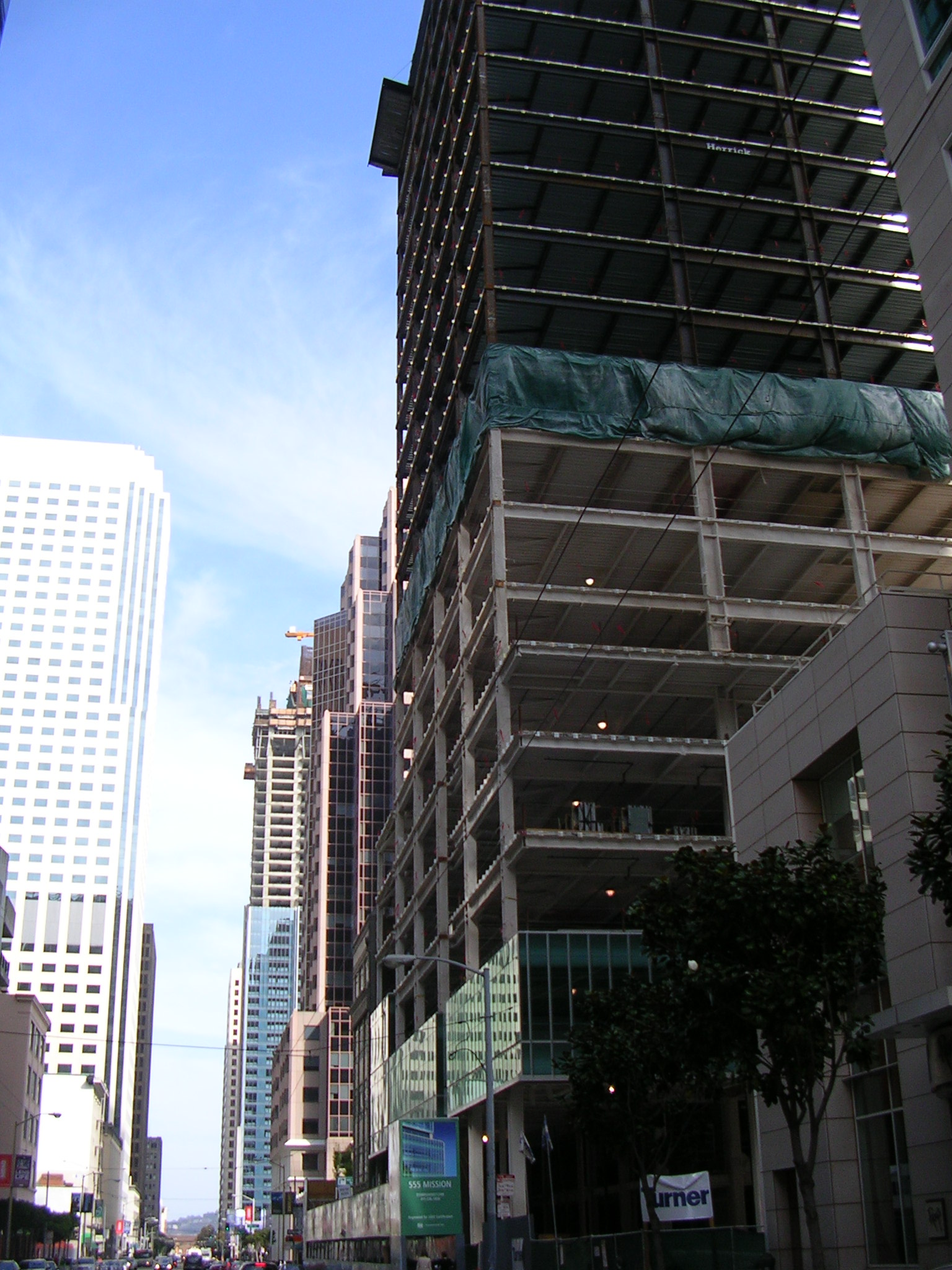 The steel structure for 555 Mission Street with a greenish cladding installed (bottom). 50 Fremont Center (600 feet, 183 m, 43 floors) is seen to the right, and the Millennium Tower (301 Mission Street) could be seen down the Mission Street canyon.